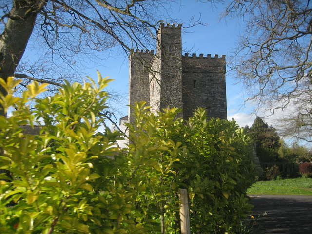 Barberstown Castle, Straffan. Co Kildare (3) Built in the 13th century and now a hotel.